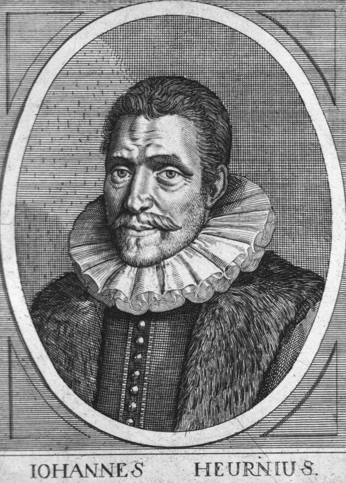 Johannes Heurnius (auch Johann van Heurne, Jan van Hornes; (1543-1601) Dutch physician